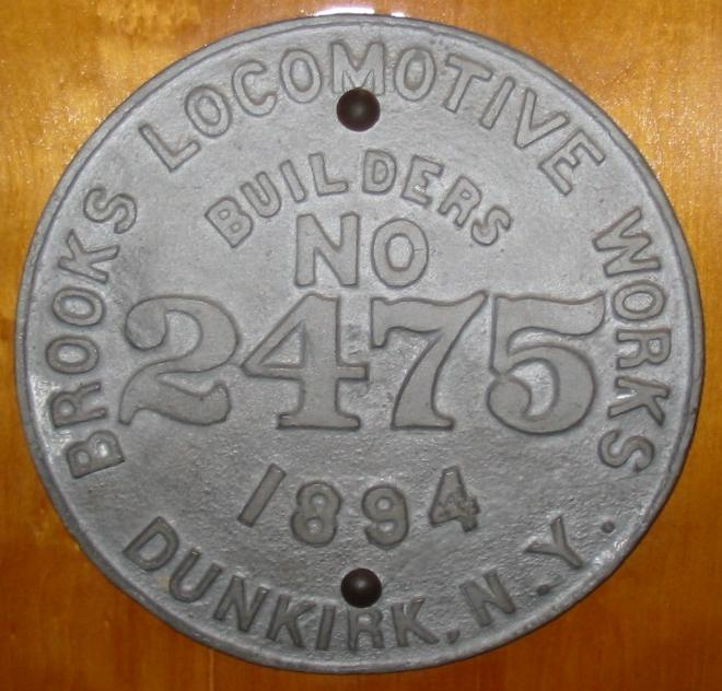 Brooks Locomotive Works builder's plate on display at the MidContinent Railway Museum, North Freedom, WI Photo by Sean Lamb (Slambo), October 10 2004